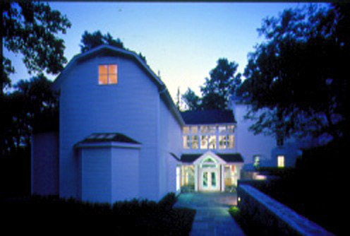 The Aldrich Museum before renovation and expansion